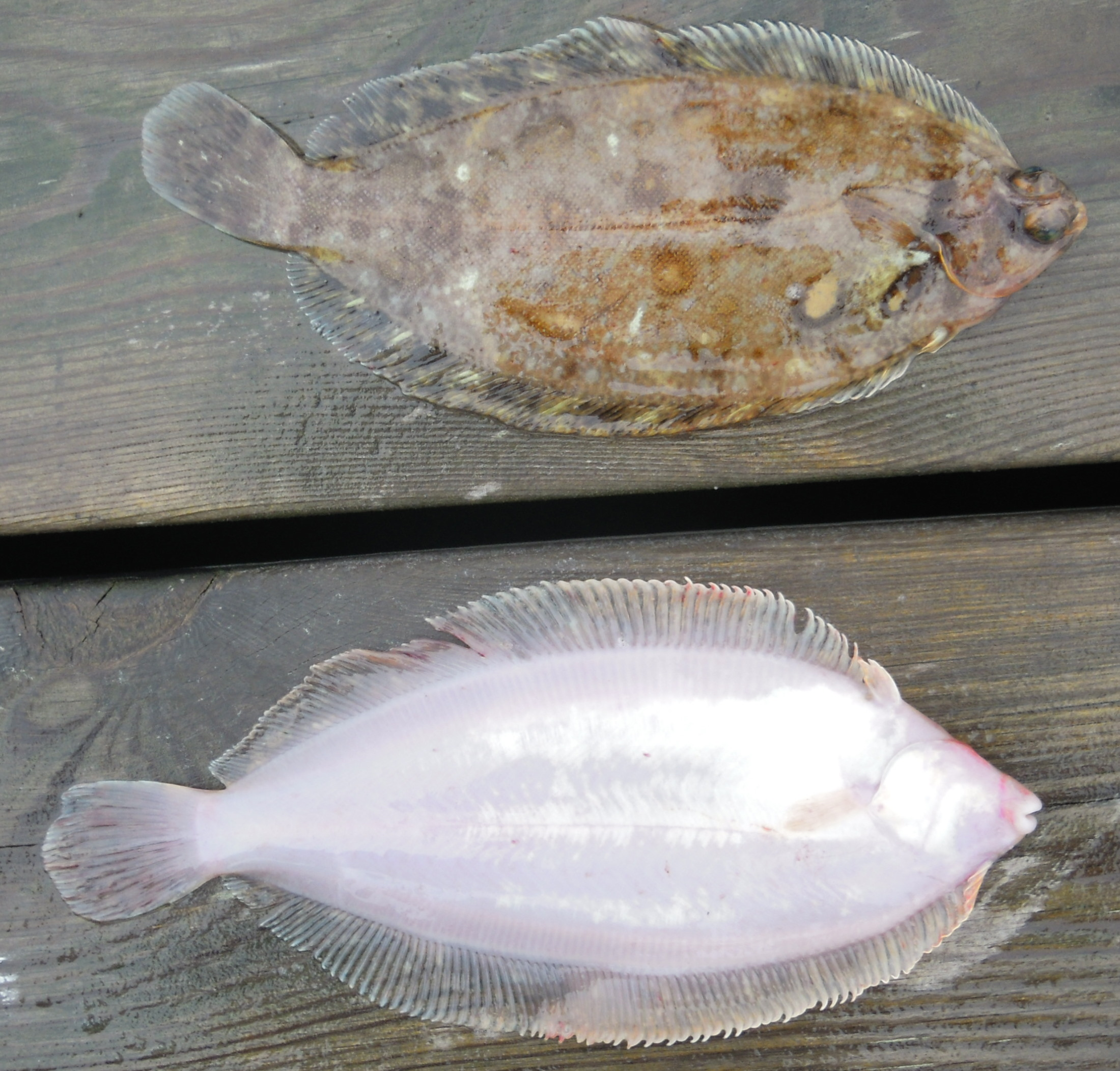 The lemon sole, Microstomus kitt, is a flatfish of the family Pleuronectidae. Stavern, Norway.